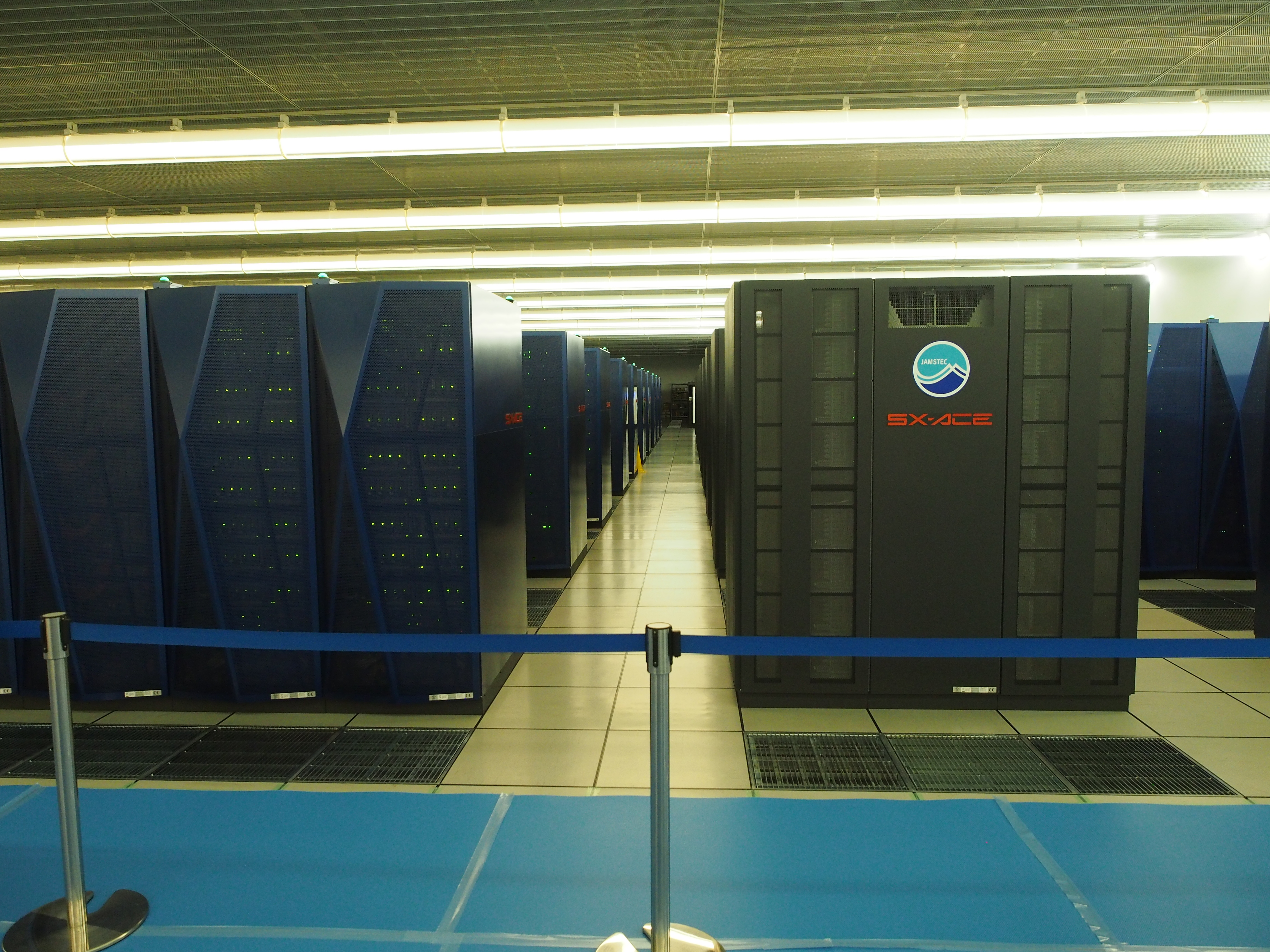 Earth Simulator 3, the third generation of supercomputer at JAMSTEC. It consists of computational nodes (blue racks) and interconnection units (black racks). Photographed on the open house day of JAMSTEC Yokohama Institute for Earth Sciences.